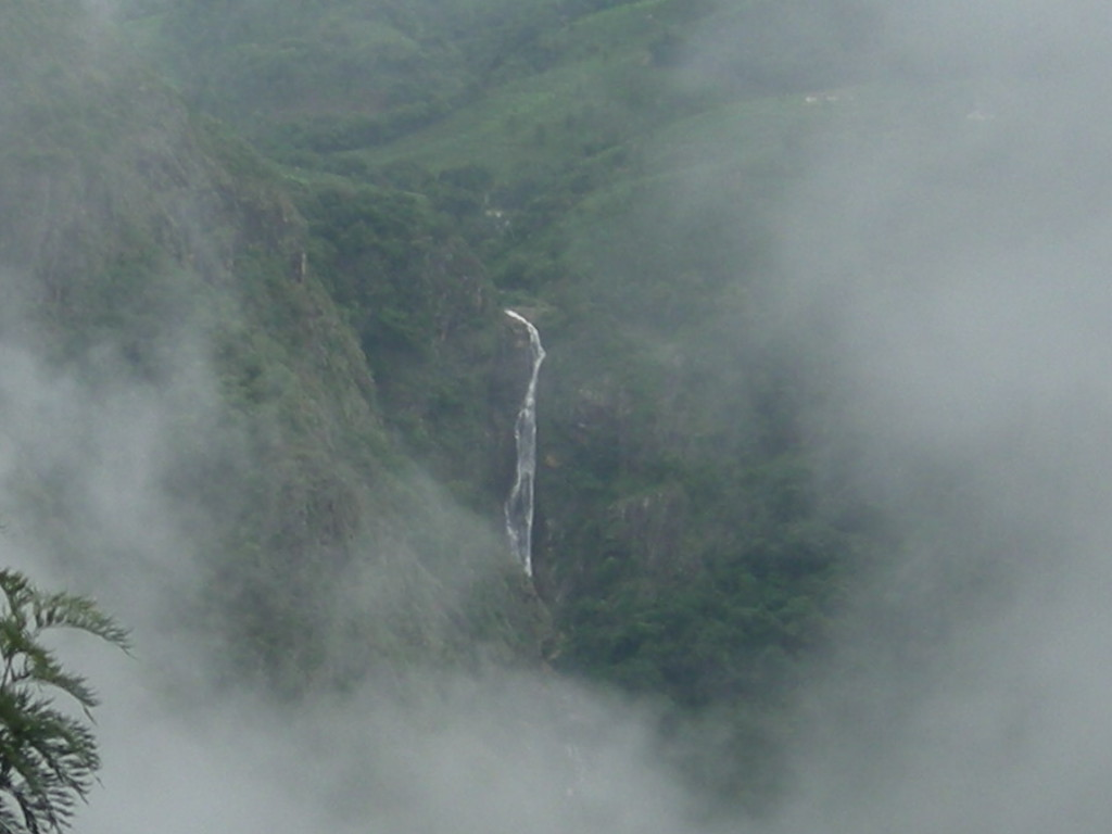 Katherine Falls as seen from Lamb's Rock Viewpoint. Katherine Falls as seen from Lamb's Rock Viewpoint, Coonoor.